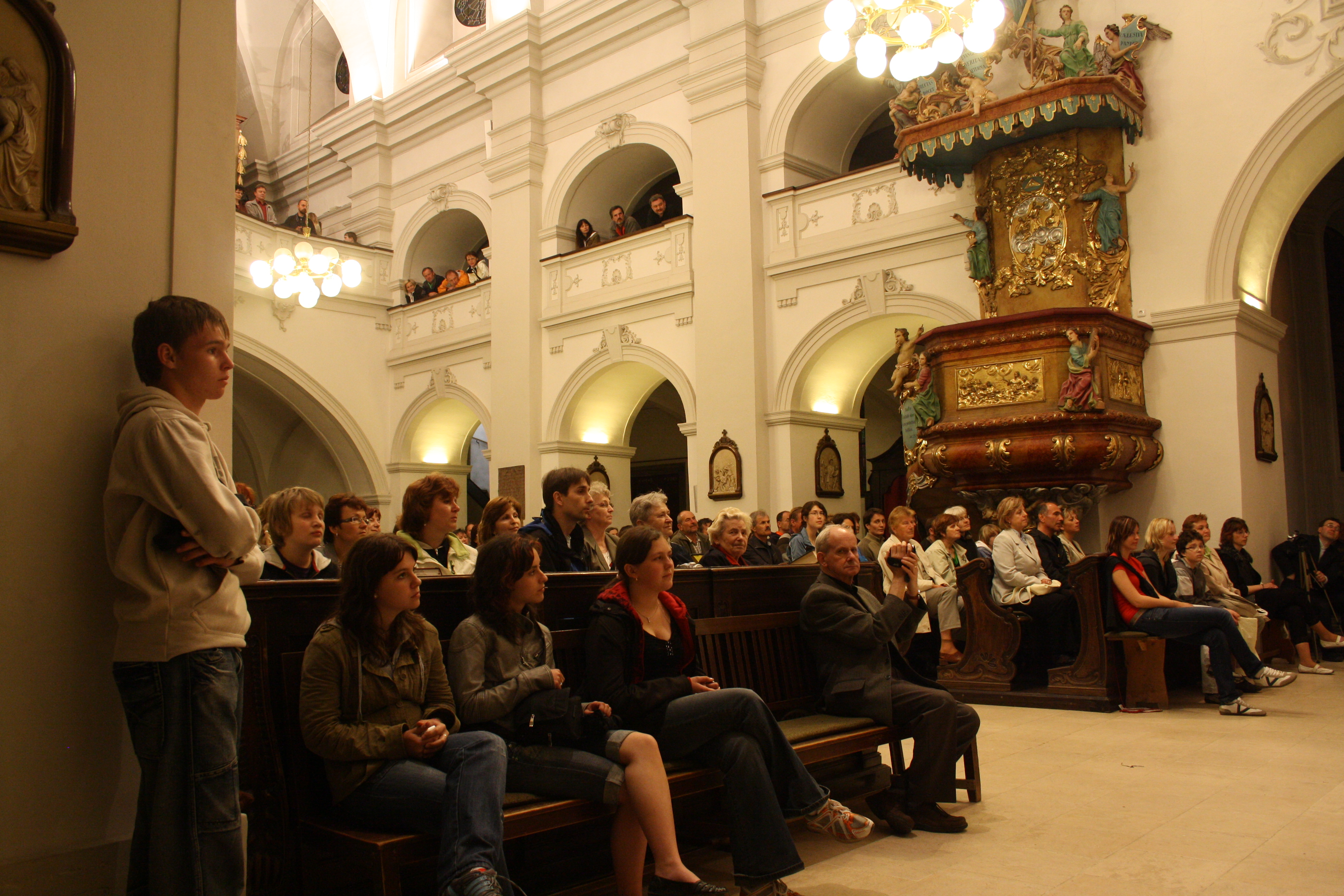 People of Třebíč in church of Saint Martin in Třebíč at concert Musica animata choir at Night of churches 2010.